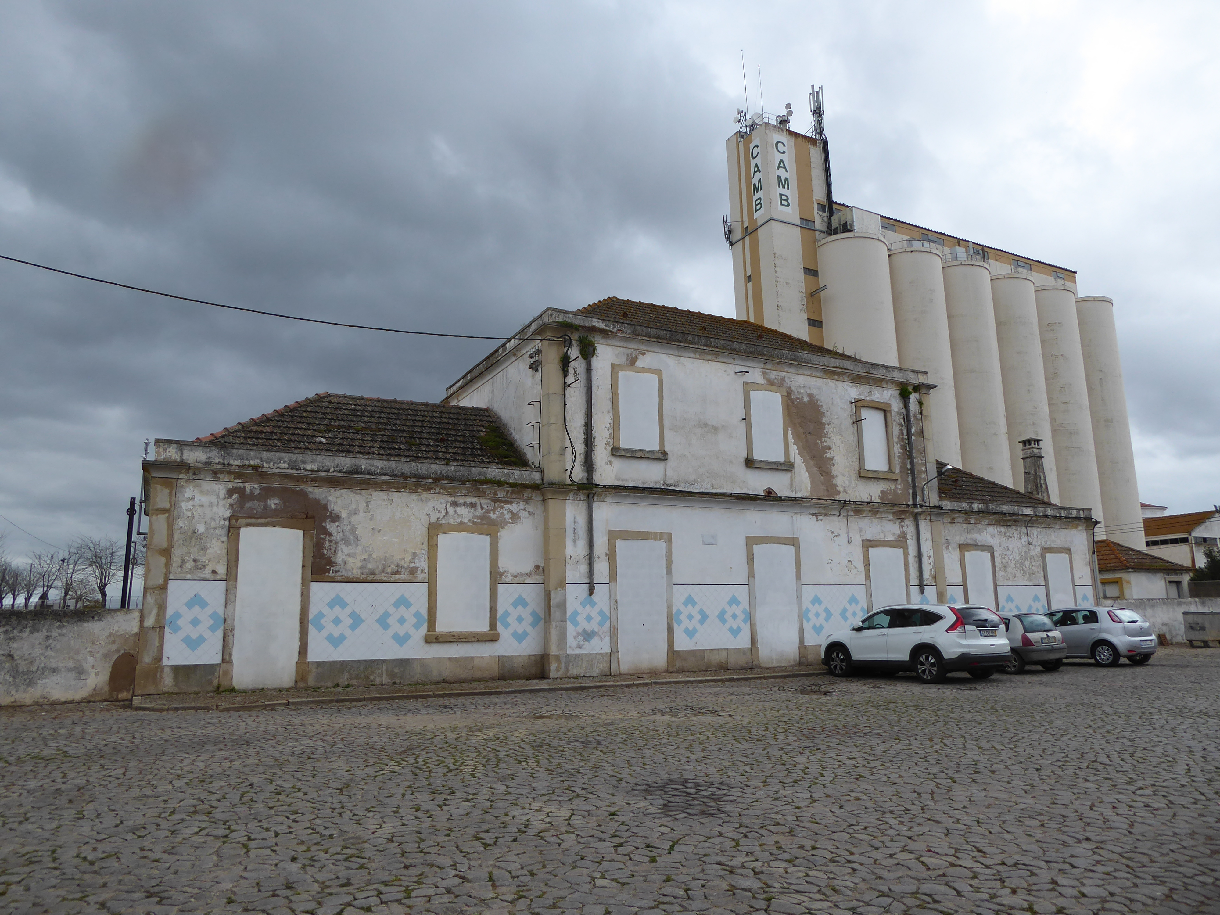 Moura train station, Portugal